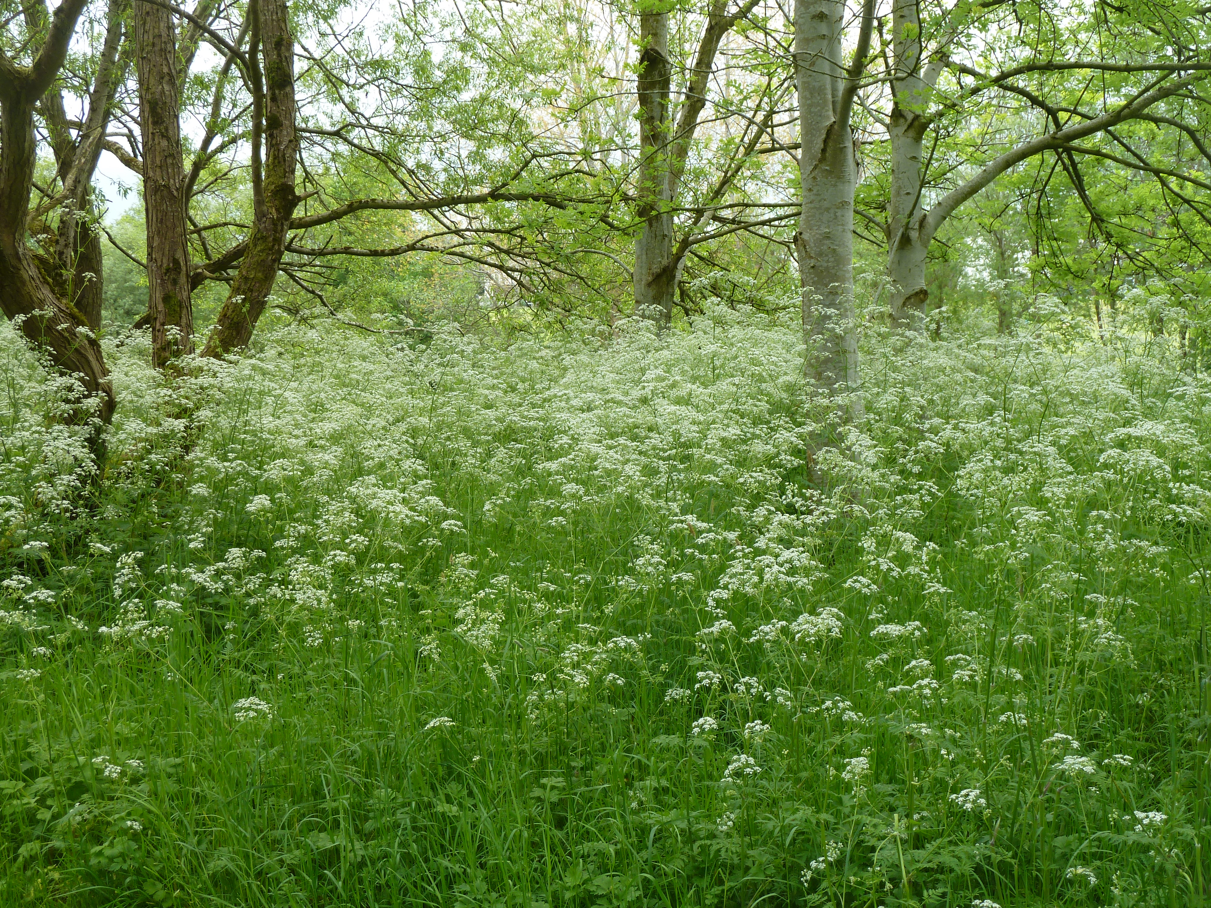 Hilden, Co. Antrim, Ireland May Anthriscus habitat